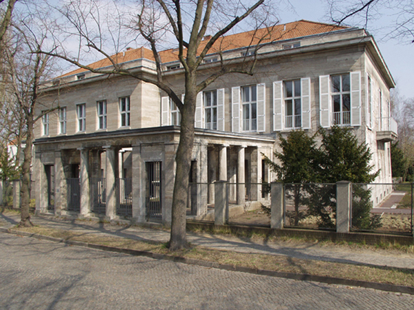 The "Wiegand-House" in Berlin, Home of the German Archaeological institute in Berlin.